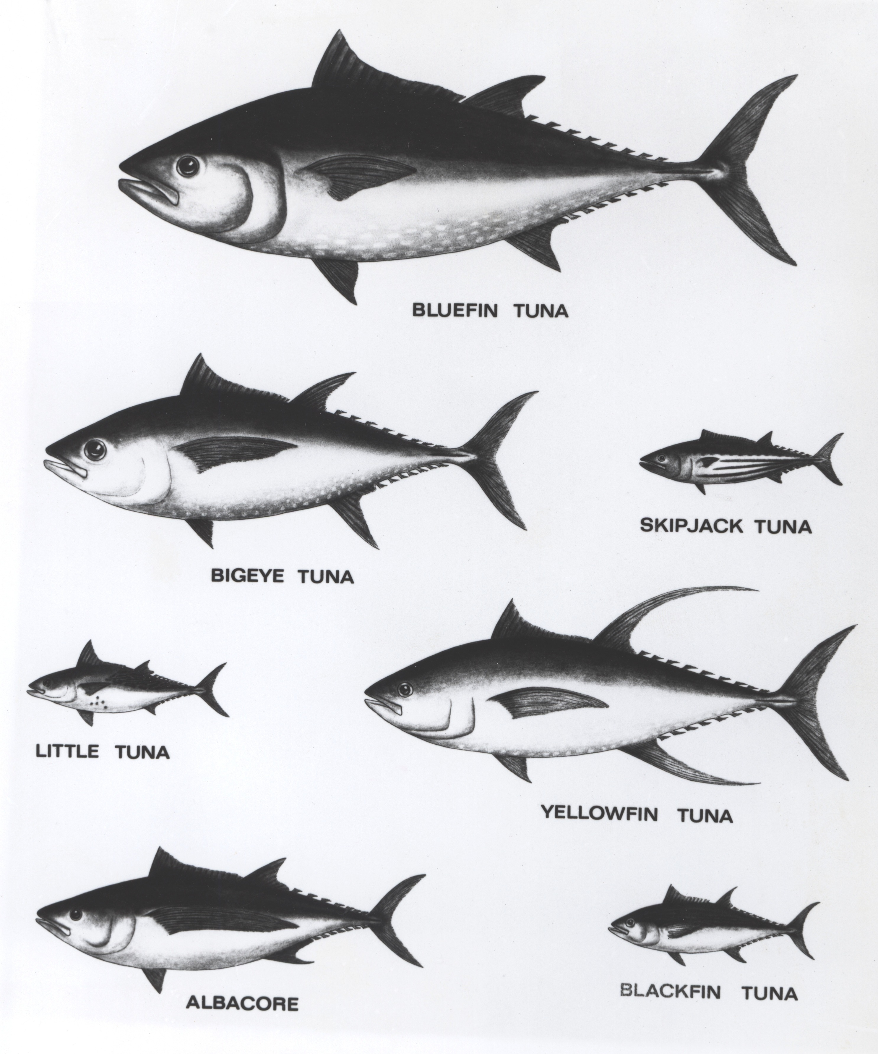 Caption: The Atlantic tunas under study at the Tropical Atlantic Biological Laboratory. Fish drawn to scale with the largest fish being approximately 8-feet long.